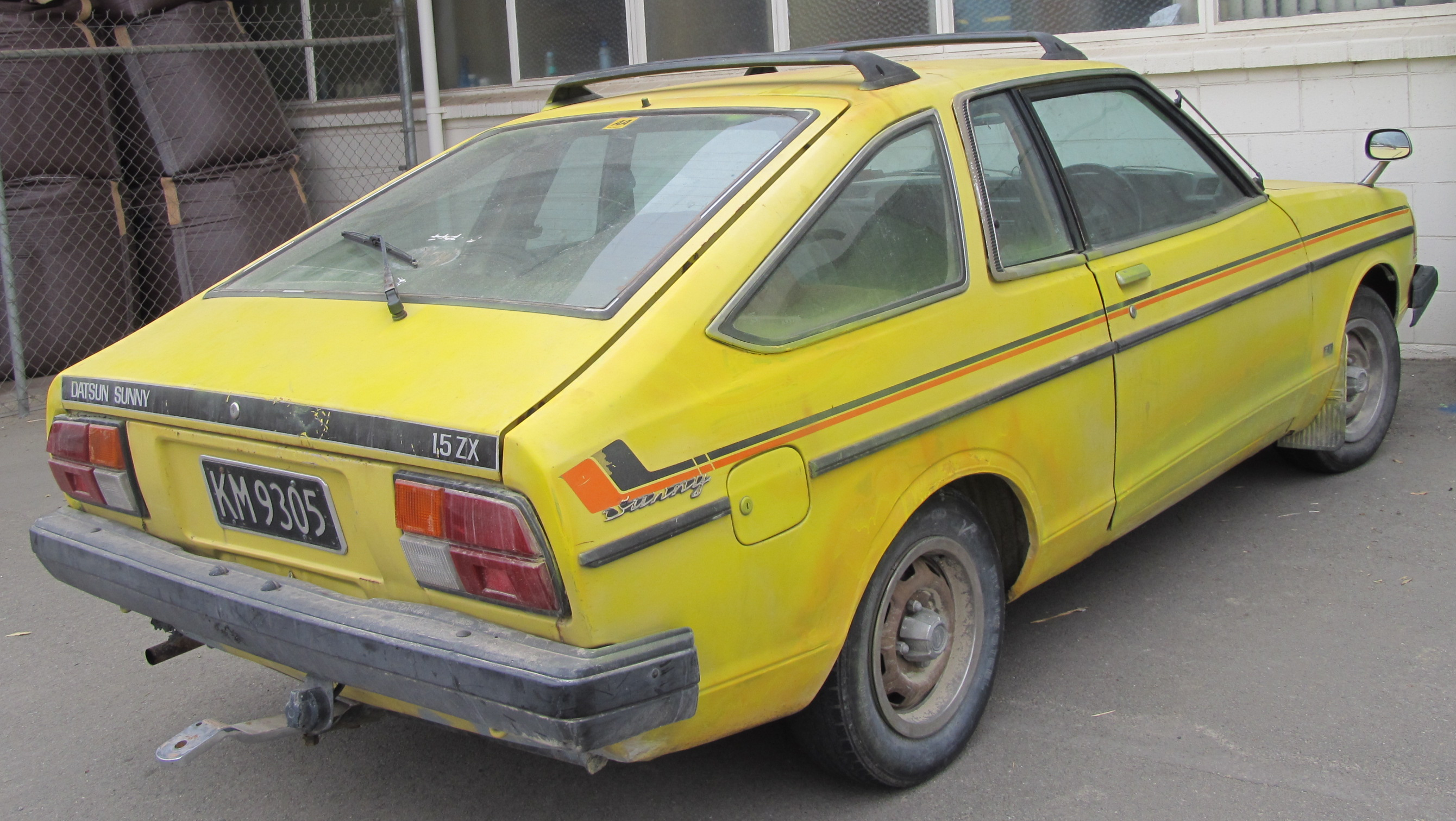 KM9305 Another delightful old heap, still trawling the streets of Timaru. Can those stripes get any better?! Unfortunately this was parked at a manure processing facility, and the place stunk like nothing else...